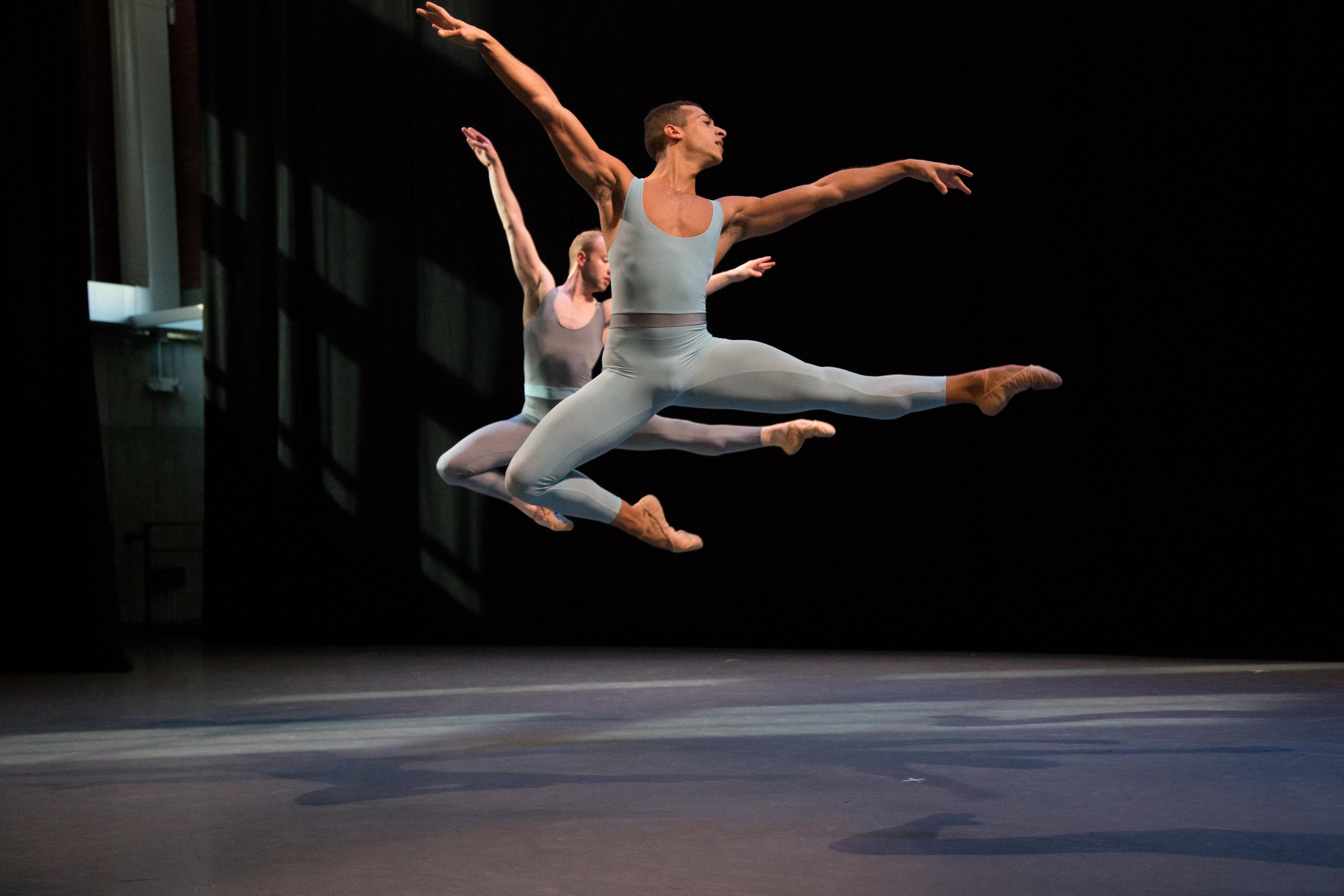 KCB Dancers Michael Davis & Craig Hall perform to Ian Poulis' piece, 'Reflections: A Culmination'